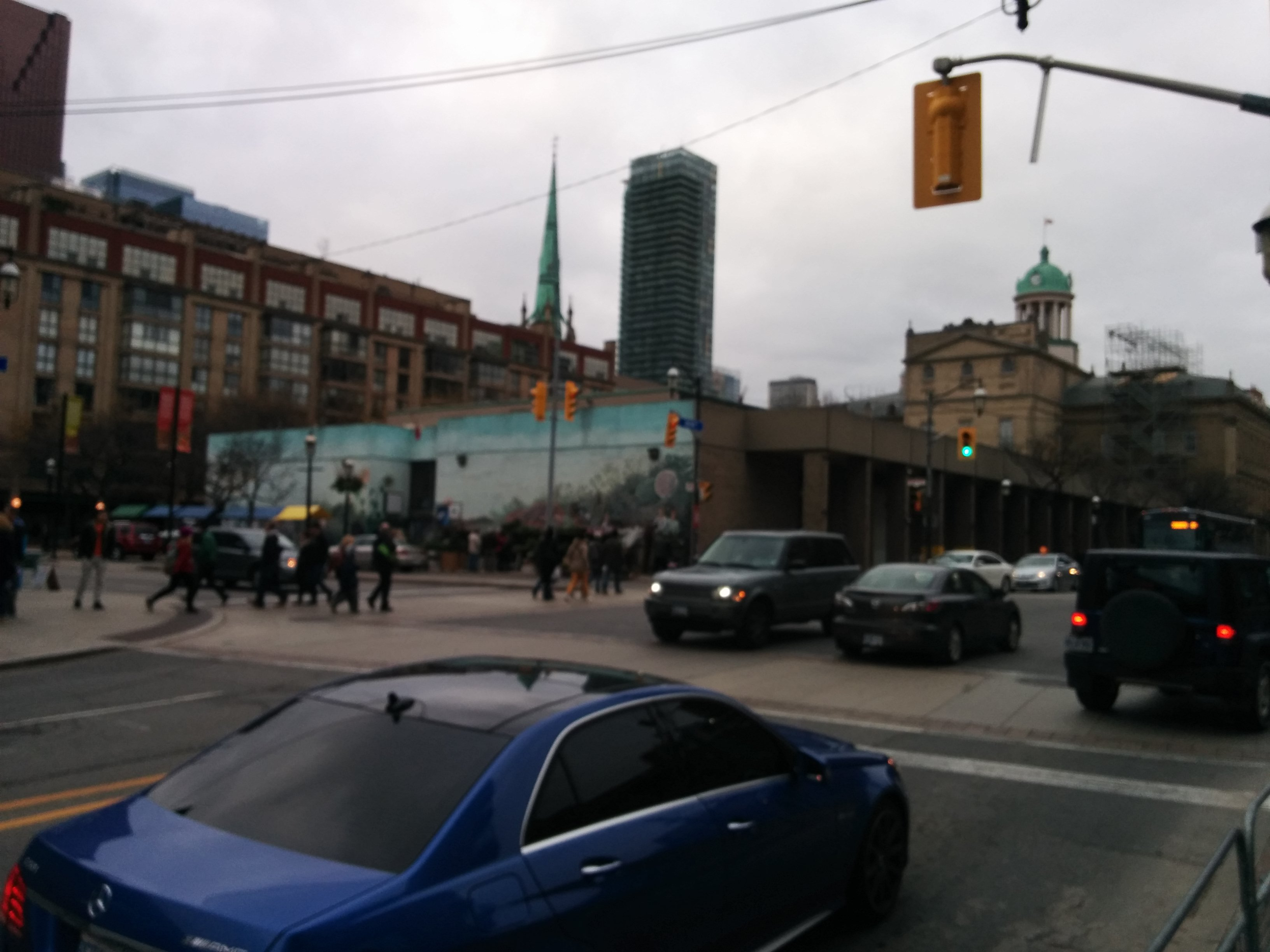 View of 1968 St. Lawrence Market North Building from south-east